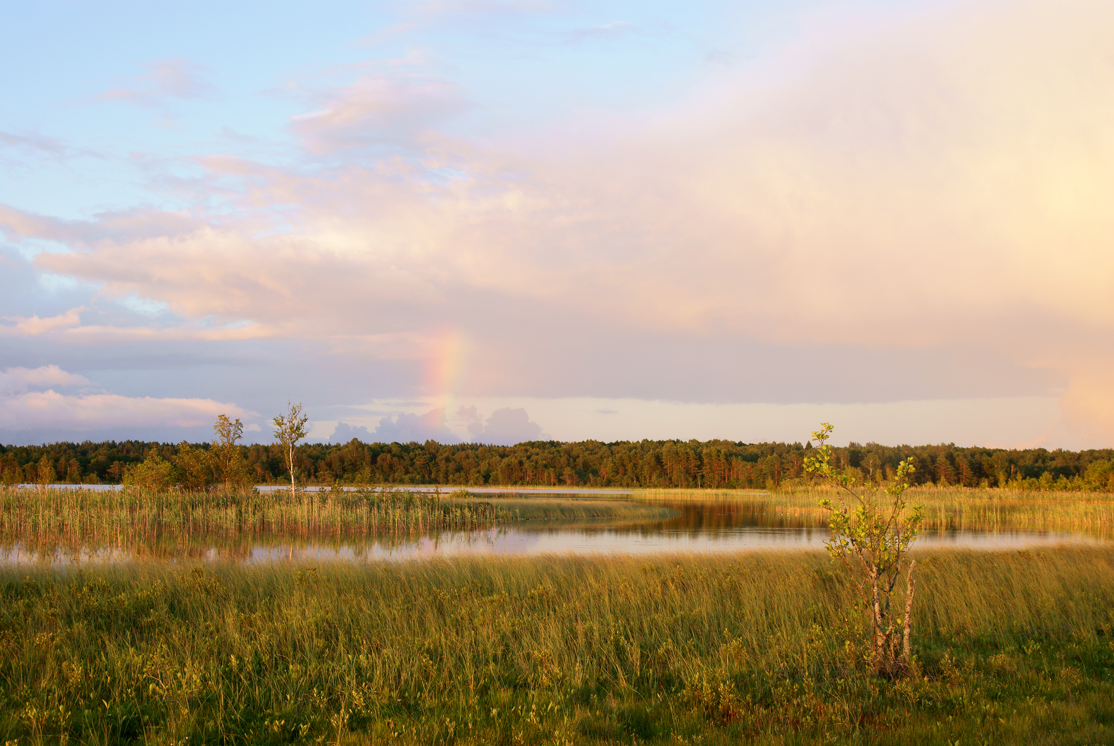 Järise lake seen from the western shore. Mustjala Parish, Saaremaa island, Estonia.